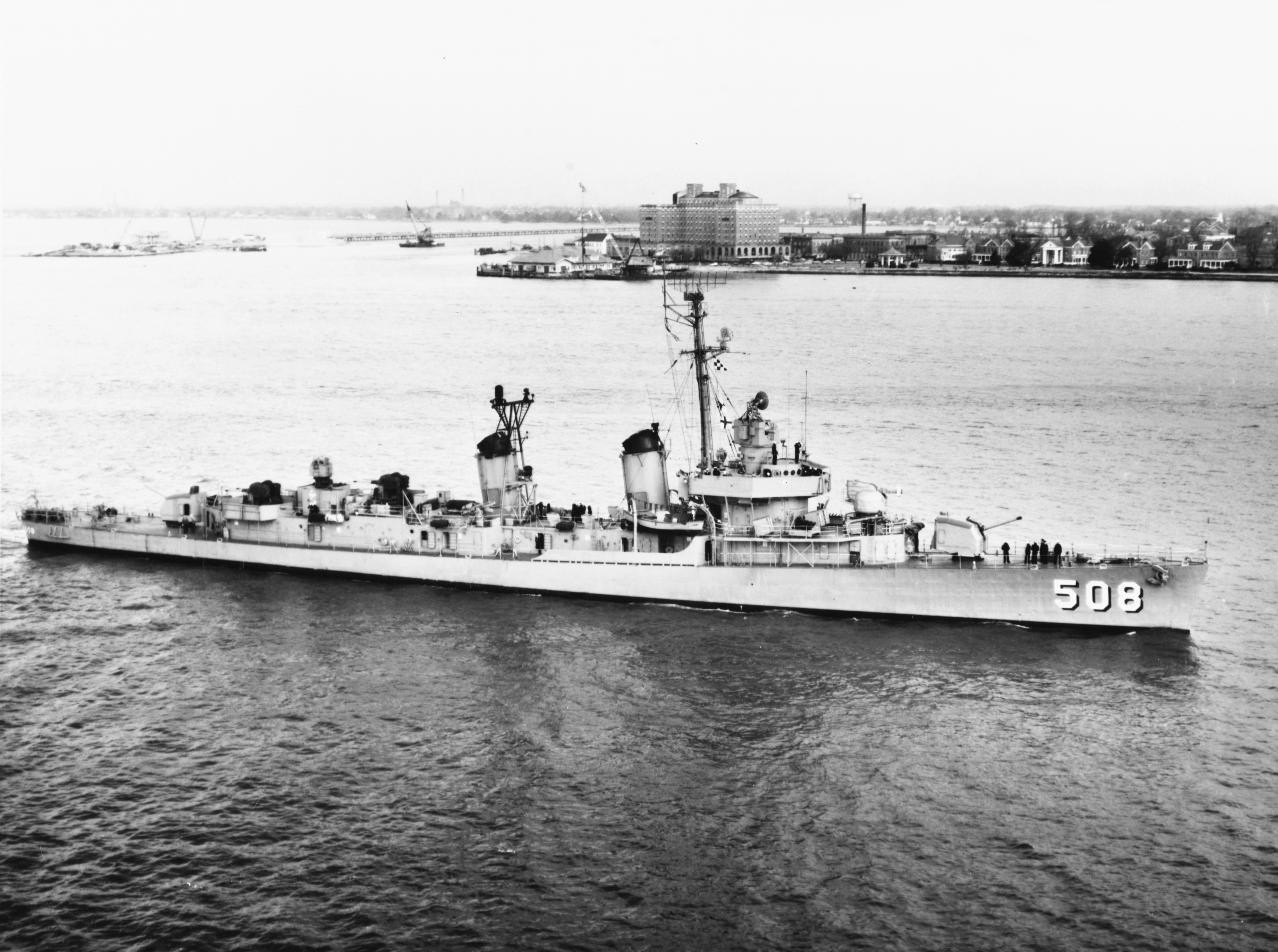 The U.S. Navy destroyer USS Cony (DDE-508) in Hampton Roads, Virginia (USA), 12 March 1957. Old Point Comfort, with the Chamberlain Hotel and Fort Monroe, is in the center and right background. Note the bridge-tunnel construction work in the left background.